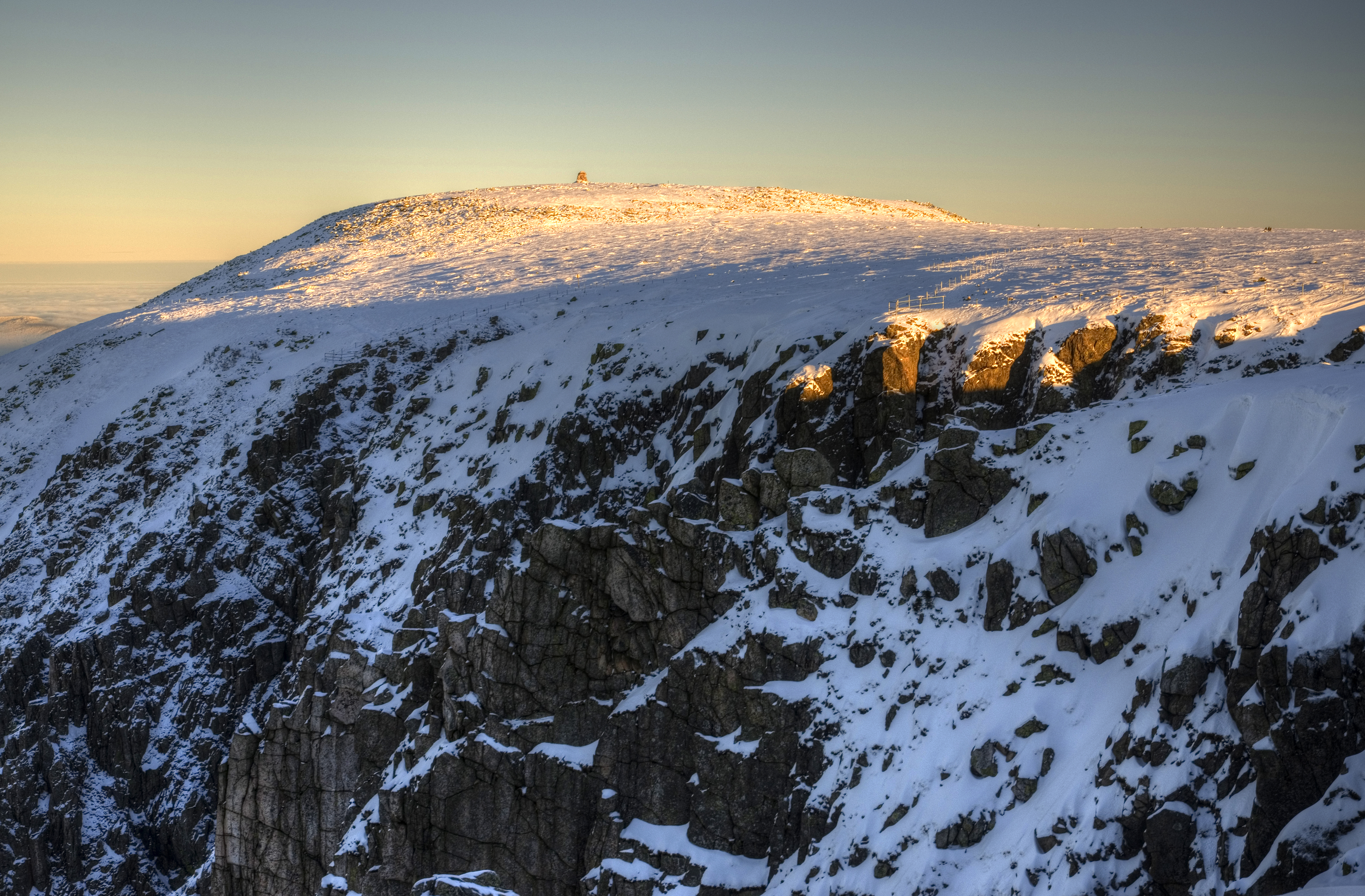 Wielki Szyszak (1509m, Giant Mountains) during sunset. View from Śnieżne Kotły.